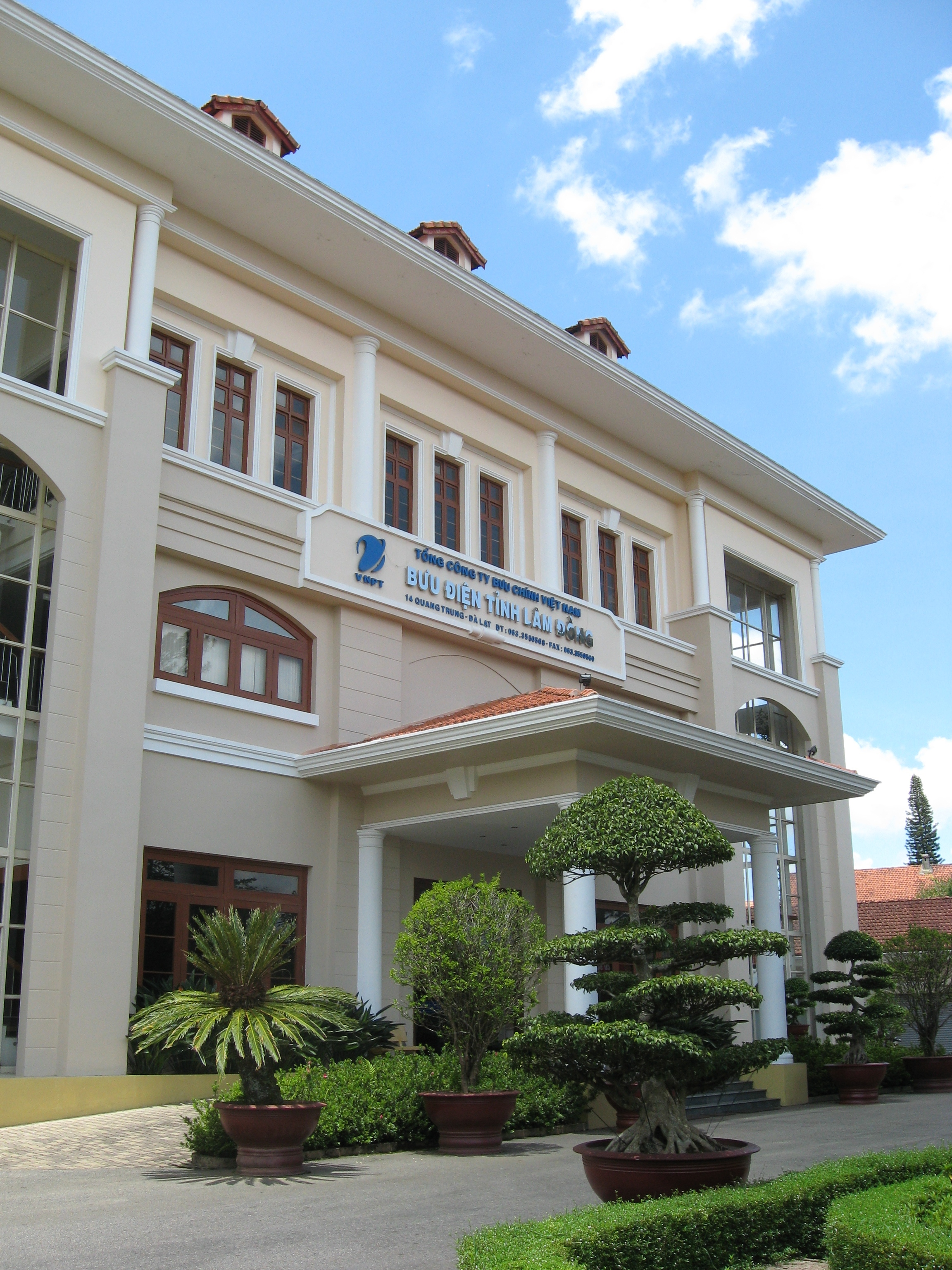 Lam Dong Post Office, Quang Trung Street, Da Lat